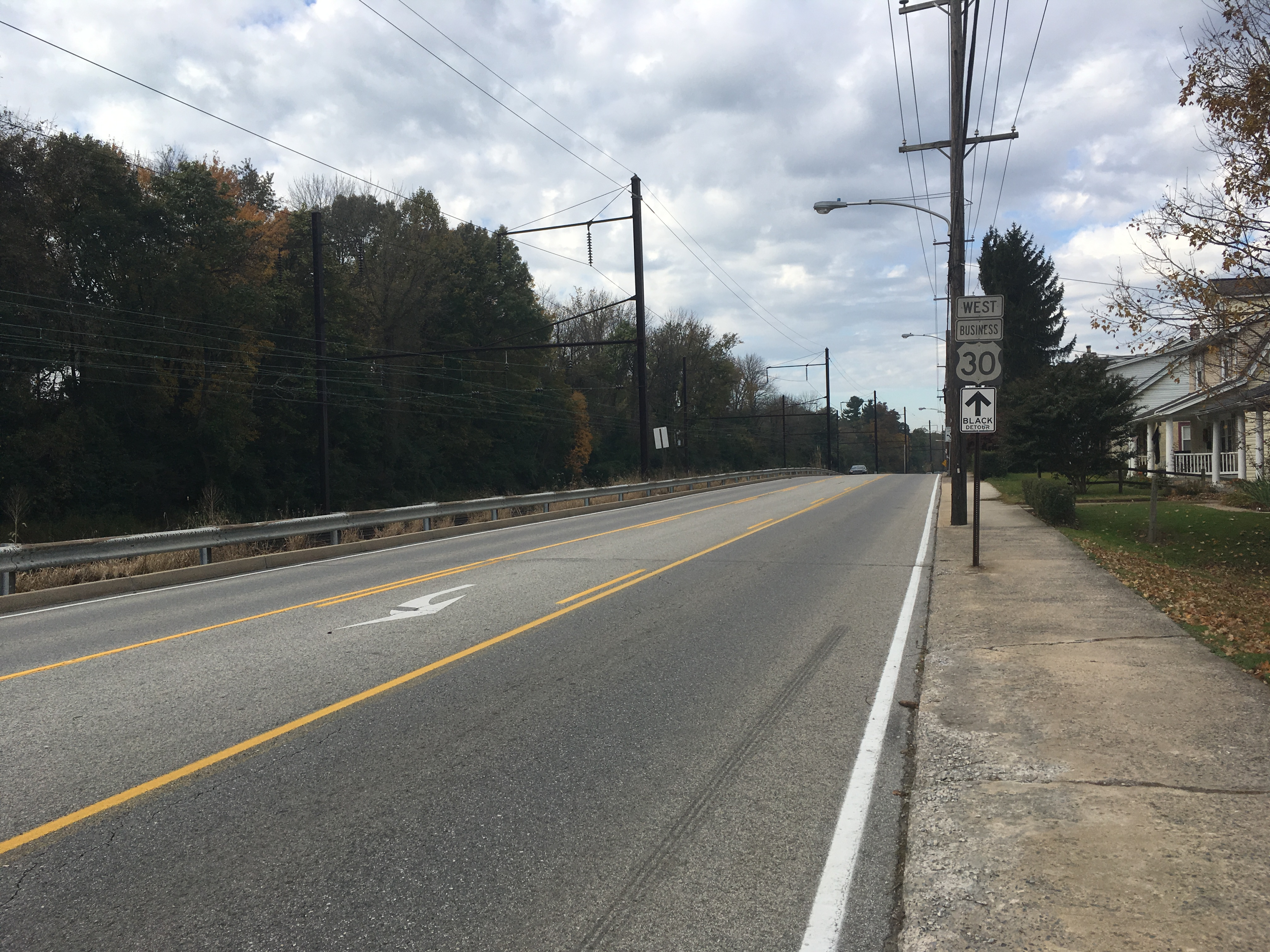 Westbound U.S. Route 30 Business (Lancaster Avenue) past the intersection with Aston Avenue in Downingtown, Pennsylvania